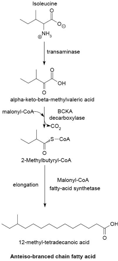 Synthesis of Branched chain fatty acids using isoleucine.